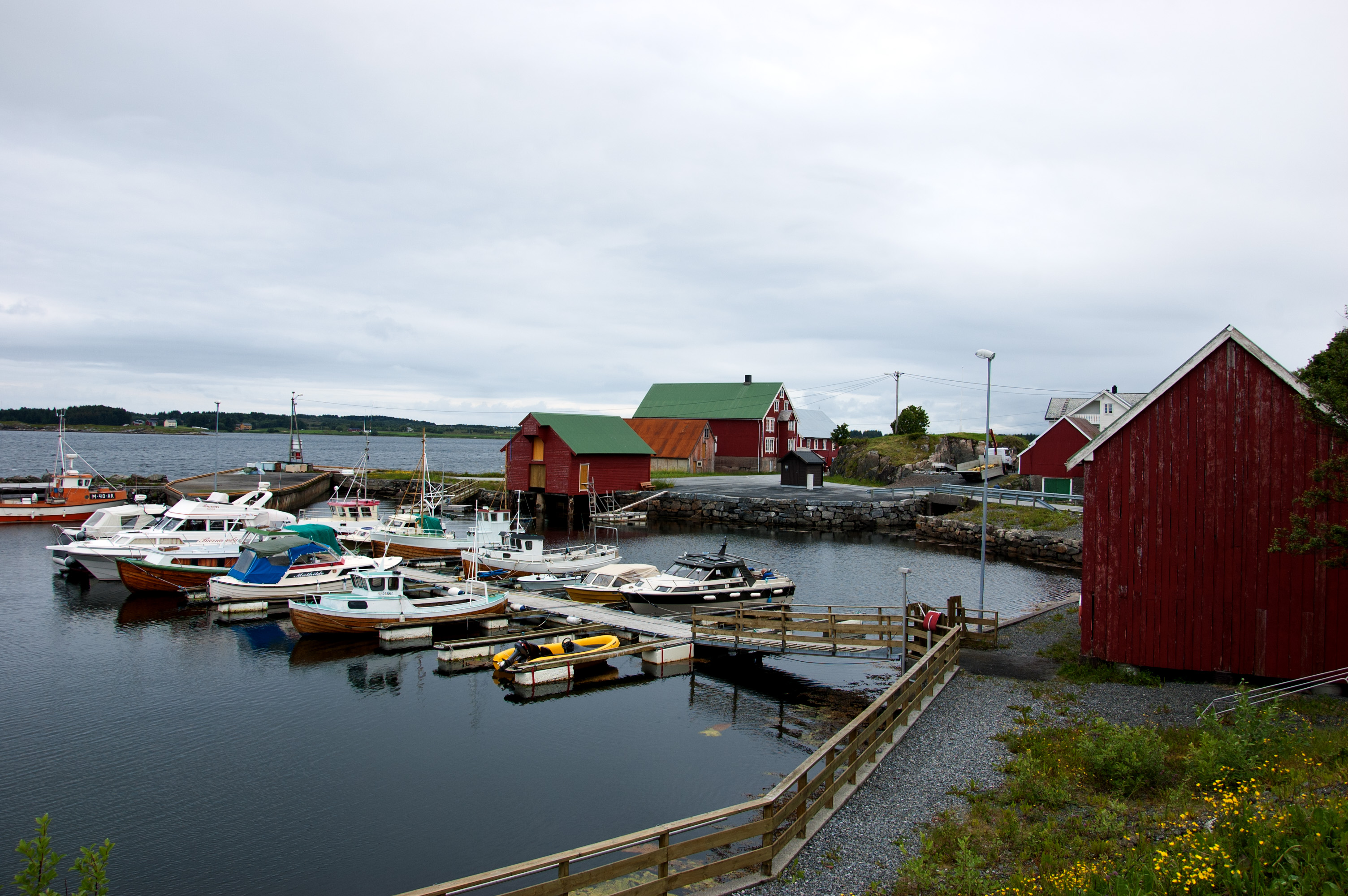 Røssøyvågen on Gossen island, Aukra, Møre og Romsdal county, Norway